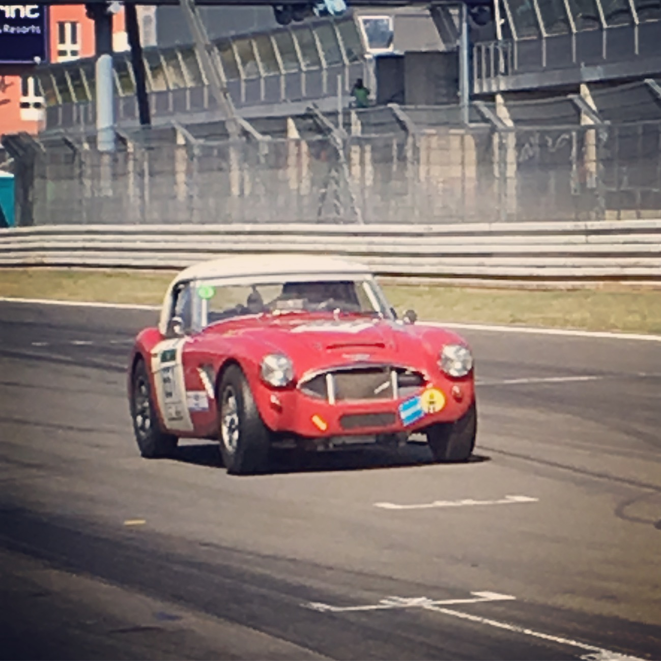 Austin-Healey at Nürburgring Classic (18.06.2017), Driver Alexander Kolb (Böööös Racing Team)